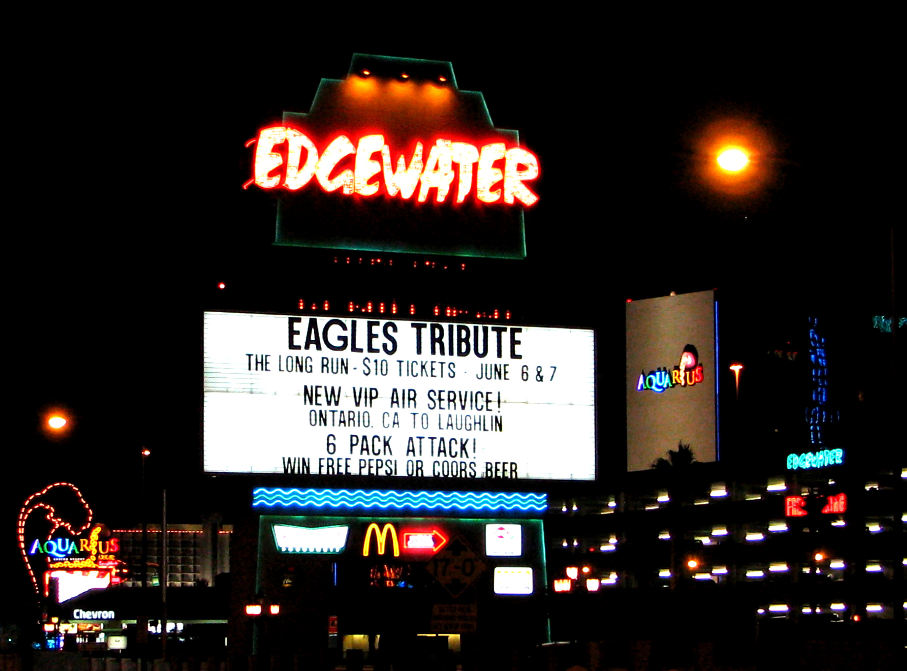 Neon sign of the Edgewater Hotel and Casino